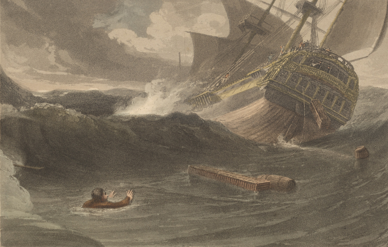 Hand-coloured aquatint engraving of the "A picturesque voyage to India, by the way of China" / by Thomas Daniell, R.A., and William Daniell, A.R.A. Creator: Daniell, Thomas, 1749-1840. Contributor: Daniell, Thomas, 1749-1840, ill. Daniell, William, 1769-1837, ill. Publisher: London : Printed for Longman, Hurst, Rees, and Orme, Paternoster-Row; and William Daniell, No. 9, Cleveland-Street, Fitzroy-Square. By Thomas Davison, Whitefriars